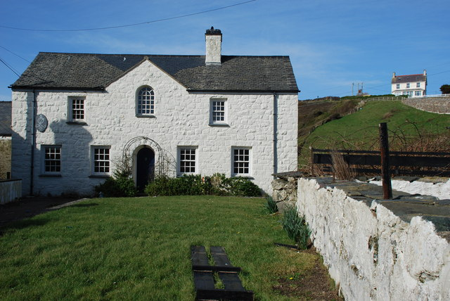 Yr Hen Bost Aberdaron Old Post Office Designed by Clough Williams-Ellis, architect of Portmeirion. The present post office is in the Spar shop nearby.